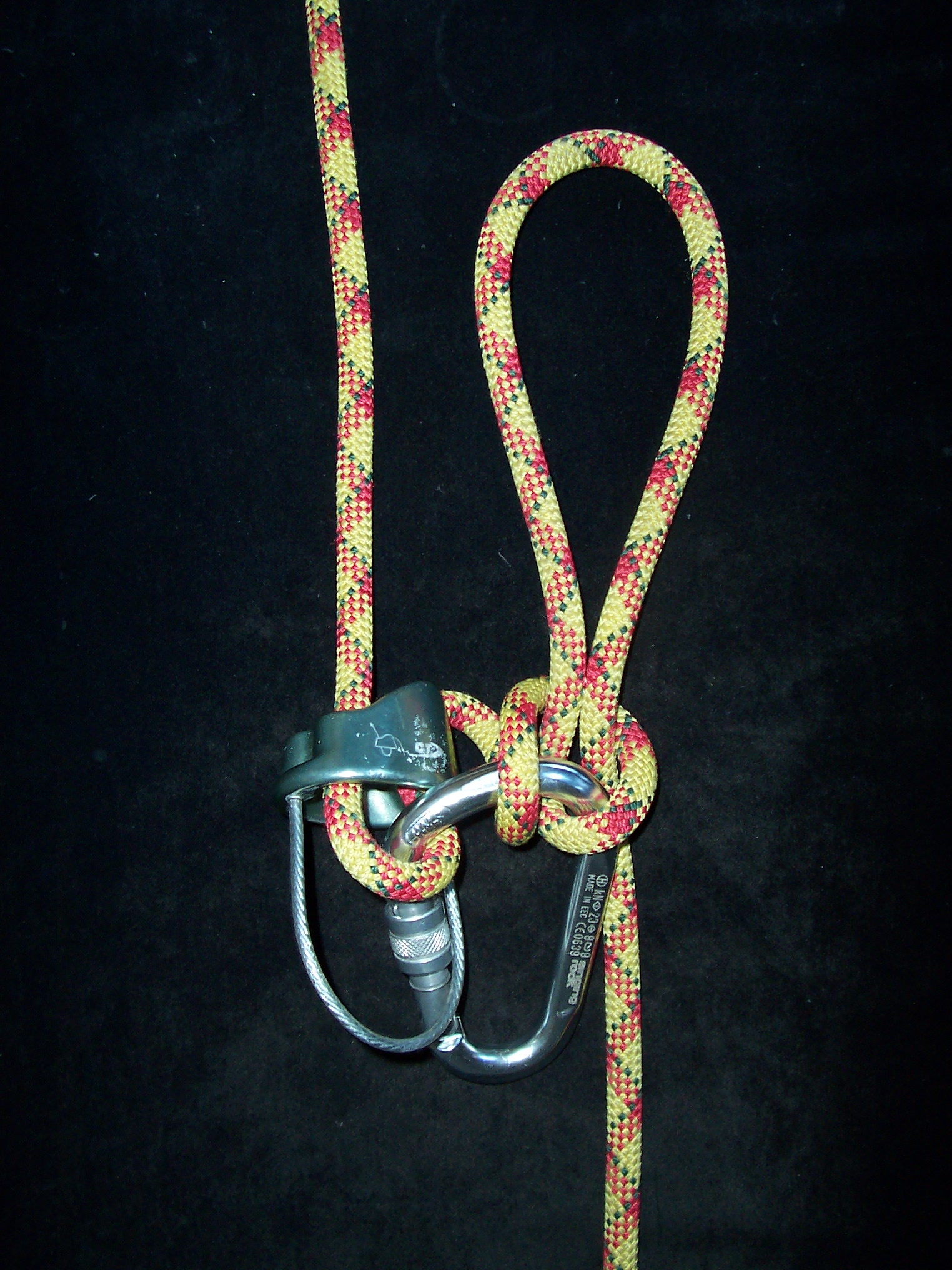 Tubular belay device with slipped munter hitch.